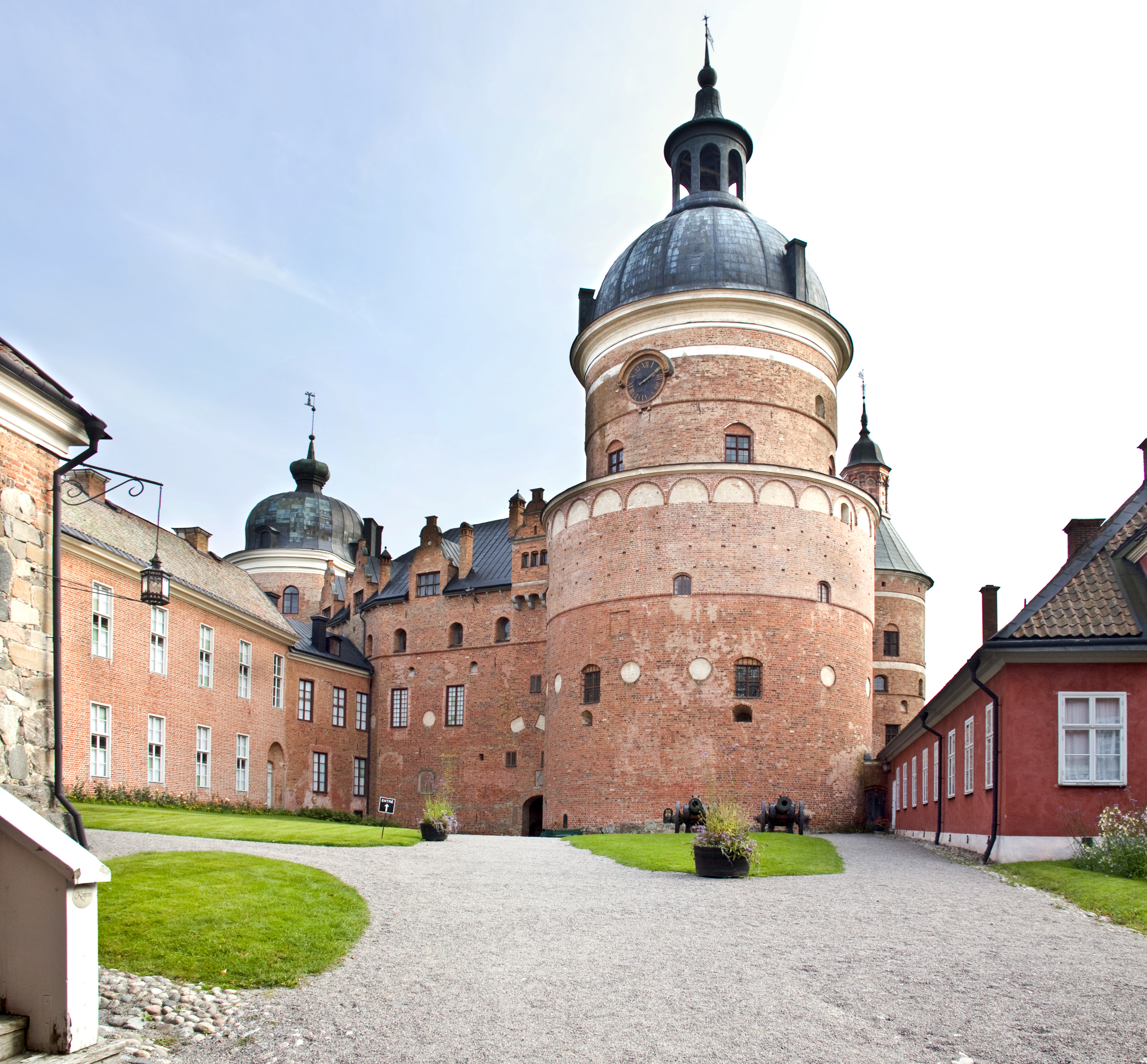 Gripsholm castle.